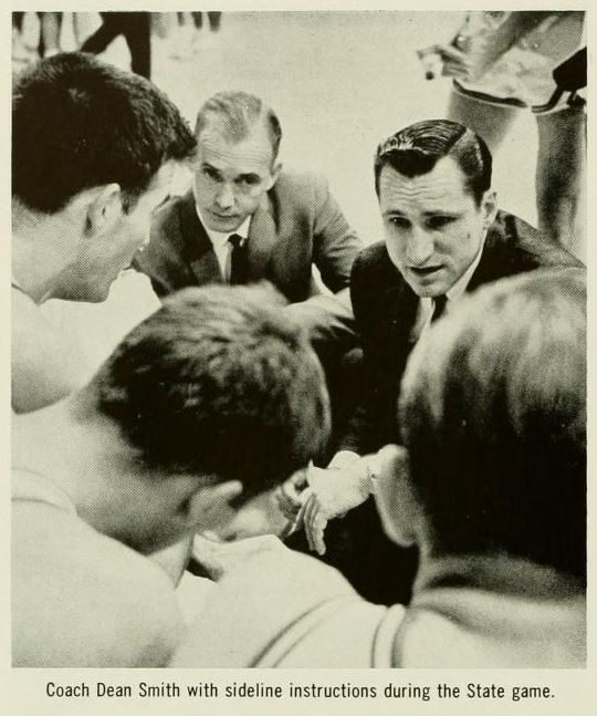 Dean Smith, head coach of the University of North Carolina basketball team, 1964. From the 1964 Yackety Yack, available online at